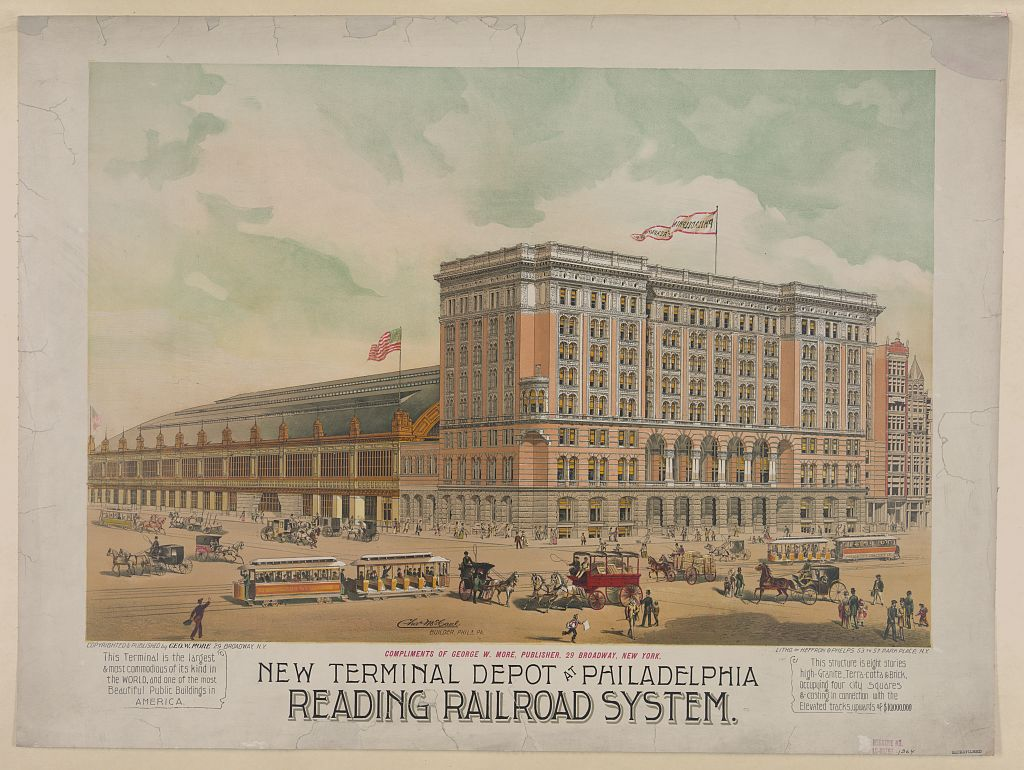 "New Terminal Depot at Philadelphia, Reading Railroad System, seen from the south and west. The south side is the 8 story structure, facing Market Street. 12th Street runs along the west"